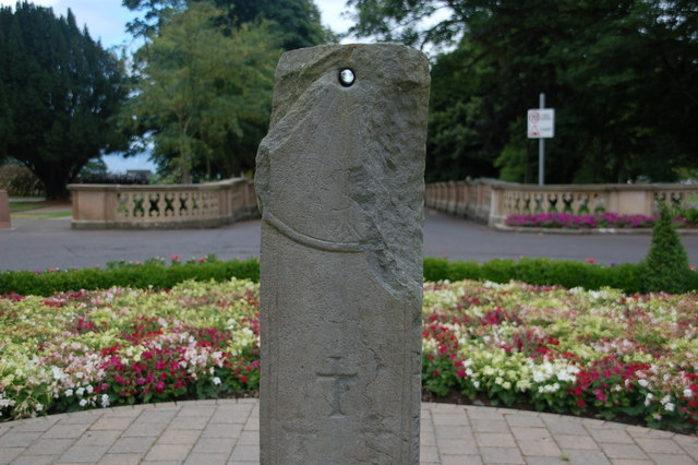 The Bangor sundial, Bangor, County Down. It is thought to date from around the year 900. It originated in Bangor Abbey. It has not survived too well and only five of the twelve timelines remain. It is displayed in front of the Town Hall.